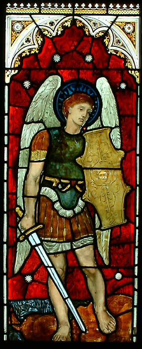 "St Michael", 1876 - Designed by Harry Wooldridge (1845-1907), made by James Powell & Sons. Part of south aisle east window from St Michael and All Angels, Weybridge, Surrey, demolished 1974.